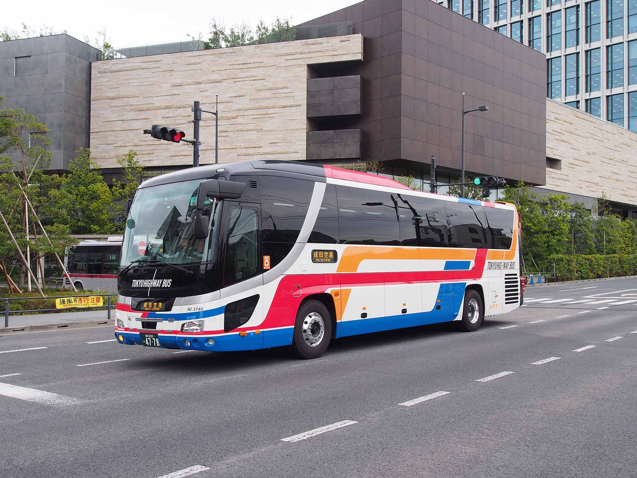 Tokyu Bus "Super Cabin", as Airport shuttle between Narita Airport and Futako-Tamagawa via Shibuya, Tokyo. Model: Isuzu Gala 2RG-RU1ESDJ License plate: KNY200 KA4778 Passenger seats: 35 (included 7 independent seats) Place: Neighbor of Futako-Tamagawa Station, Setagaya Ward, Tokyo Japan